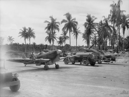 A No. 79 Squadron RAAF Supermarine Spitfire VC aircraft and ground crew at Momote airfield, Los Negros Island, Admiralty Islands. The Spitfire taxis past a Curtiss P-40 Kittyhawk of either No. 76 or No. 77 Squadron, RAAF.